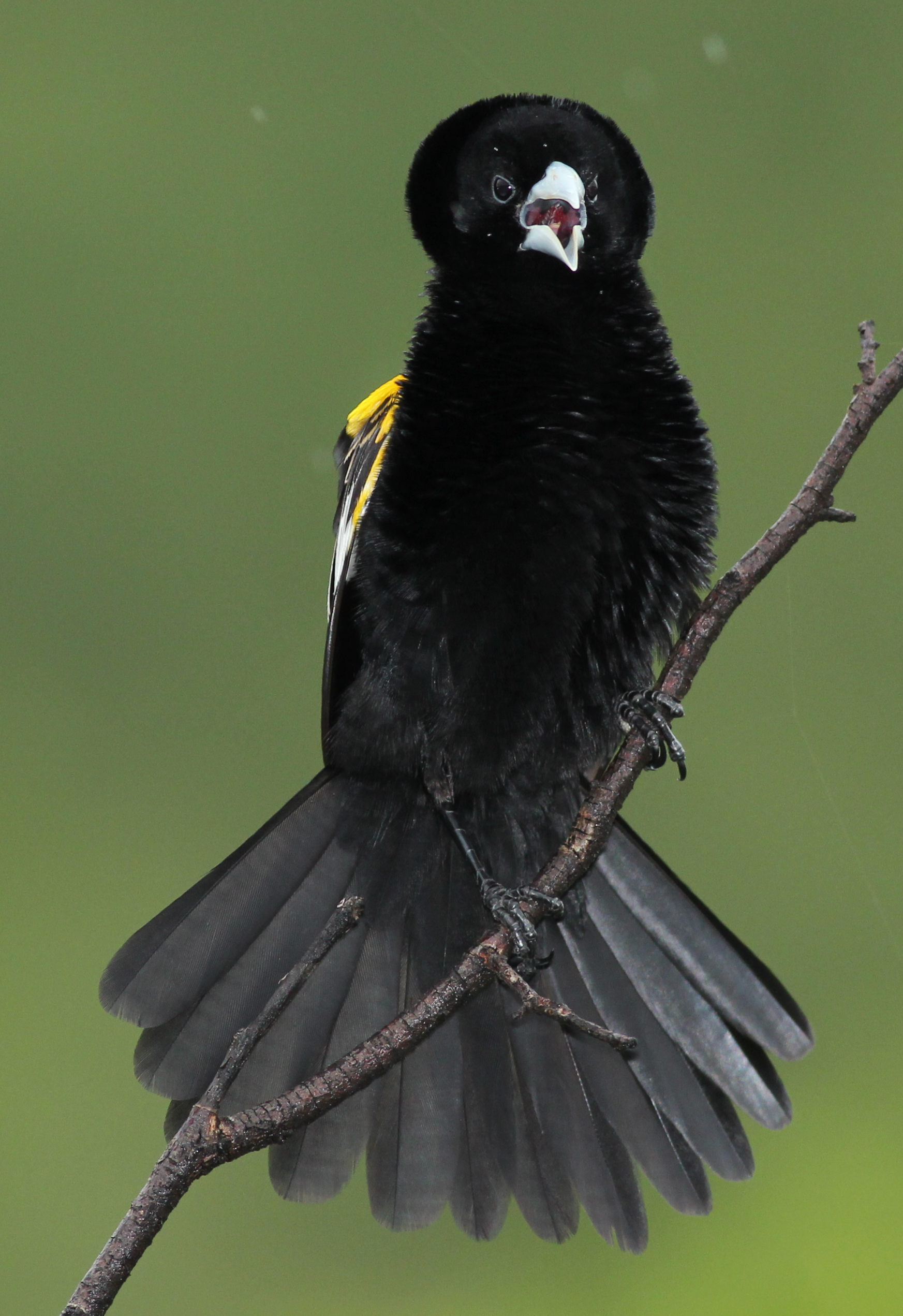 White-winged widowbird, Euplectes albonotatus, at Pilanesberg National Park, Northwest Province, South Africa